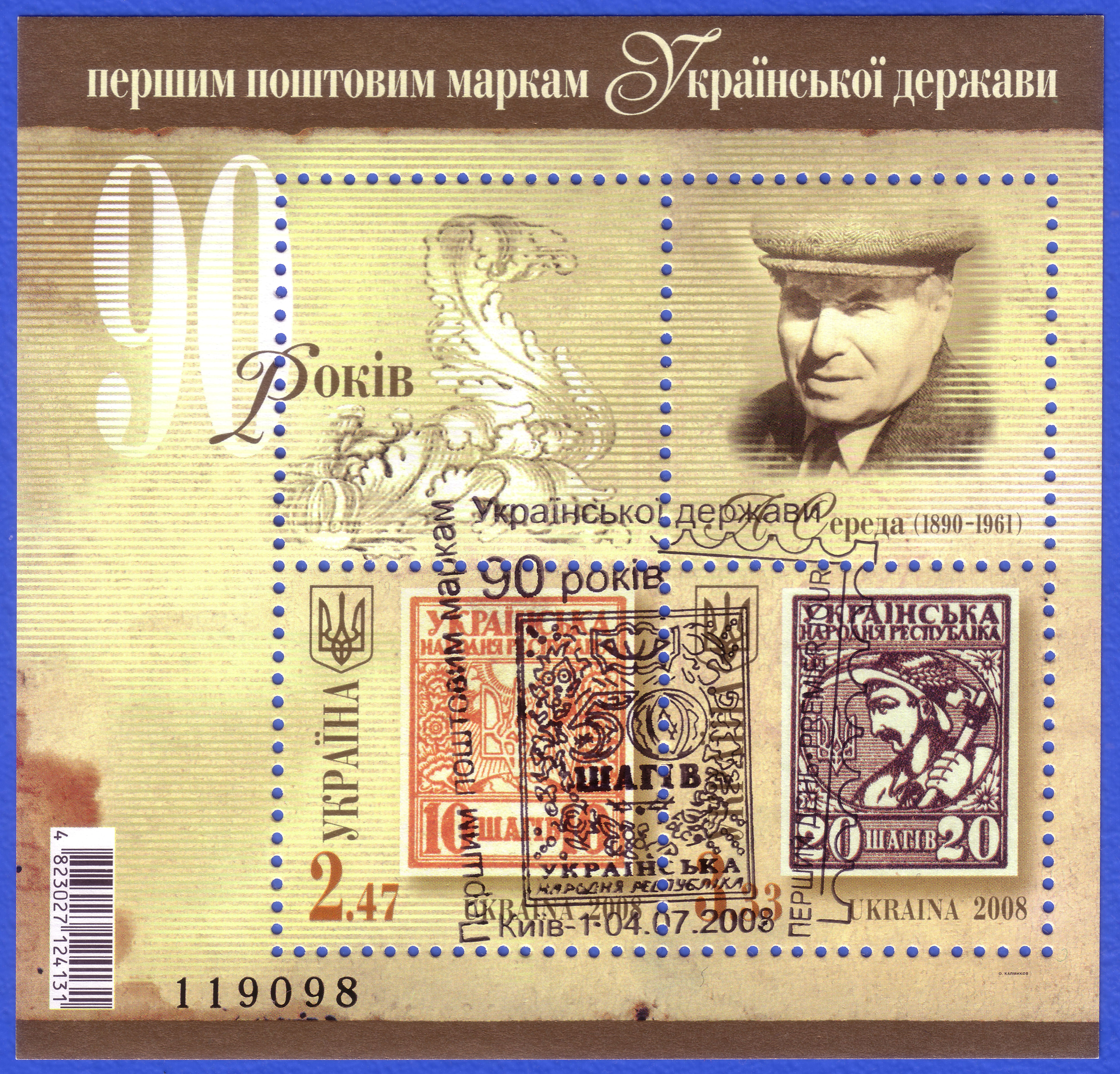 The stamps of Ukraine devoted to the 90 anniversary of the first stamps of Ukraine.